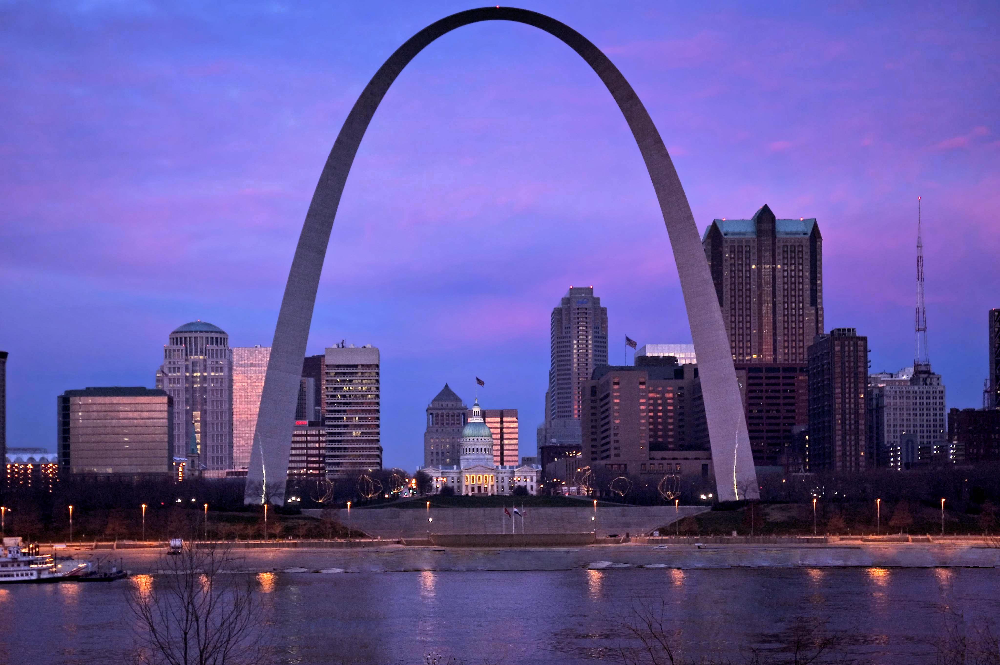 Gateway Arch